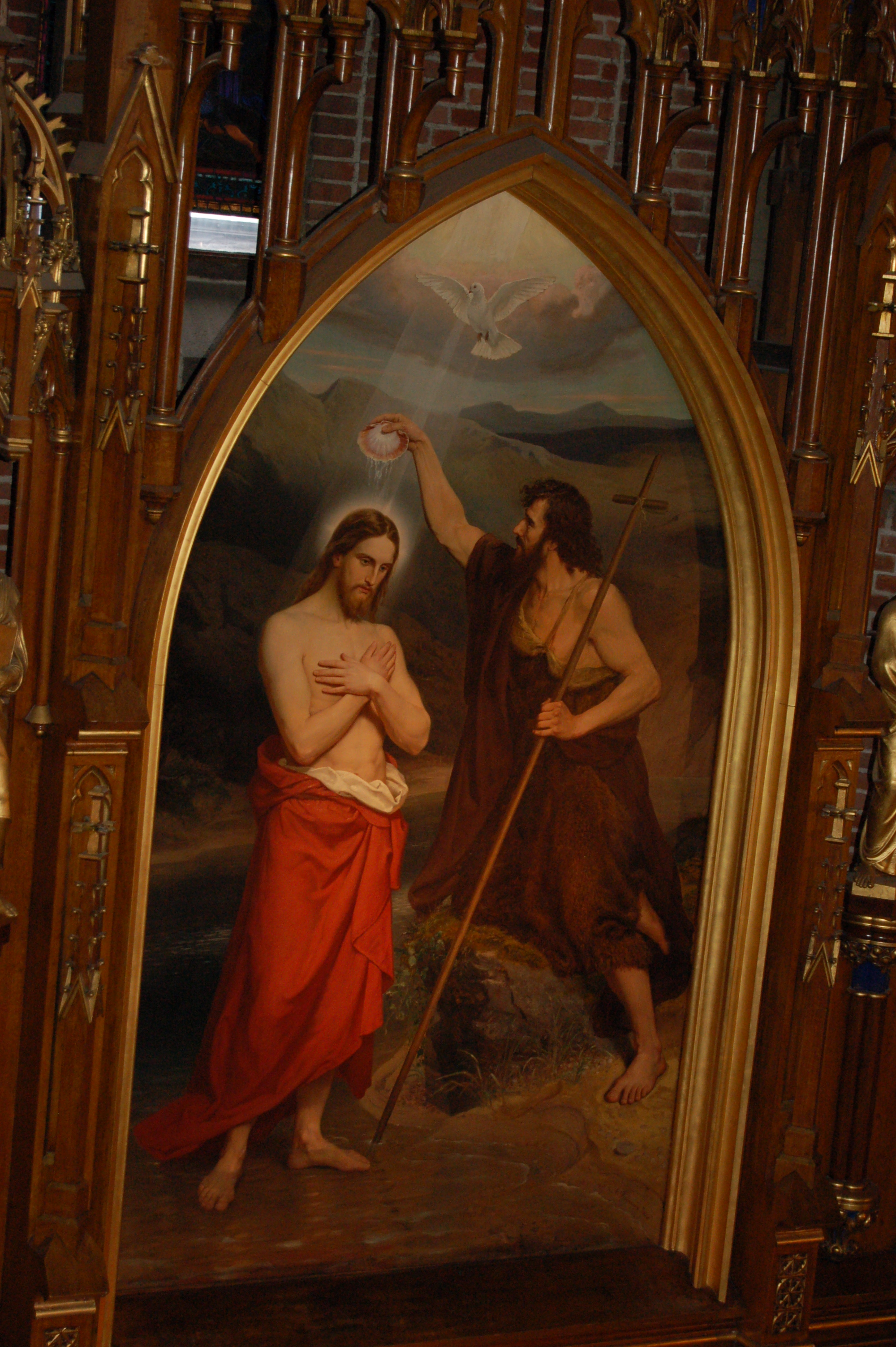 Alterbilde, Trefoldighetskirken i Oslo, Adolph Tidemand